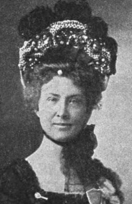 Edith Noyes Porter, a white woman wearing a very elaborate high bonnet, tied under her chin with a volume of tulle. She is wearing a square-necked dark dress.